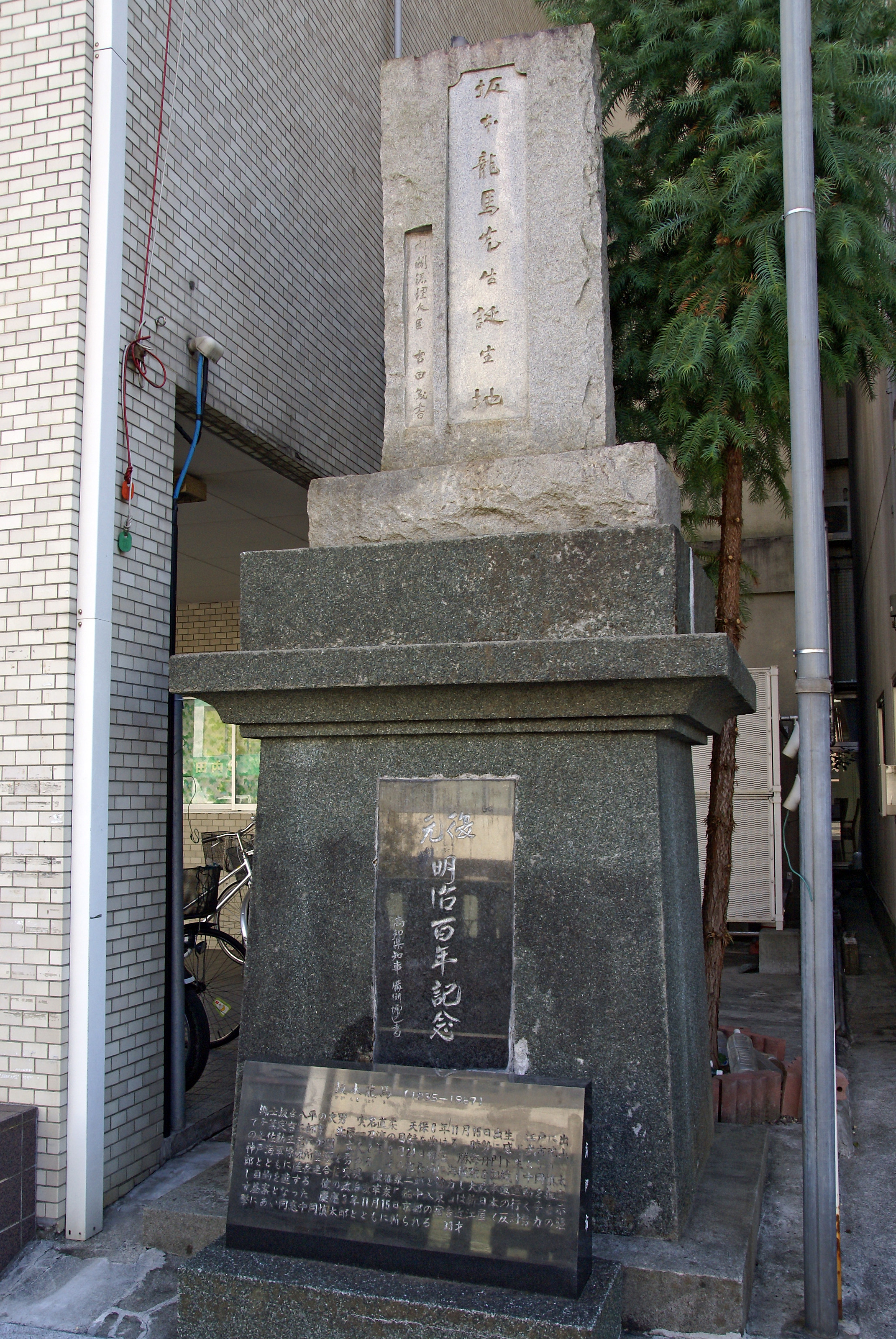 Ryoma Sakamoto's Birthplace in Kochi, Kochi prefecture, Japan